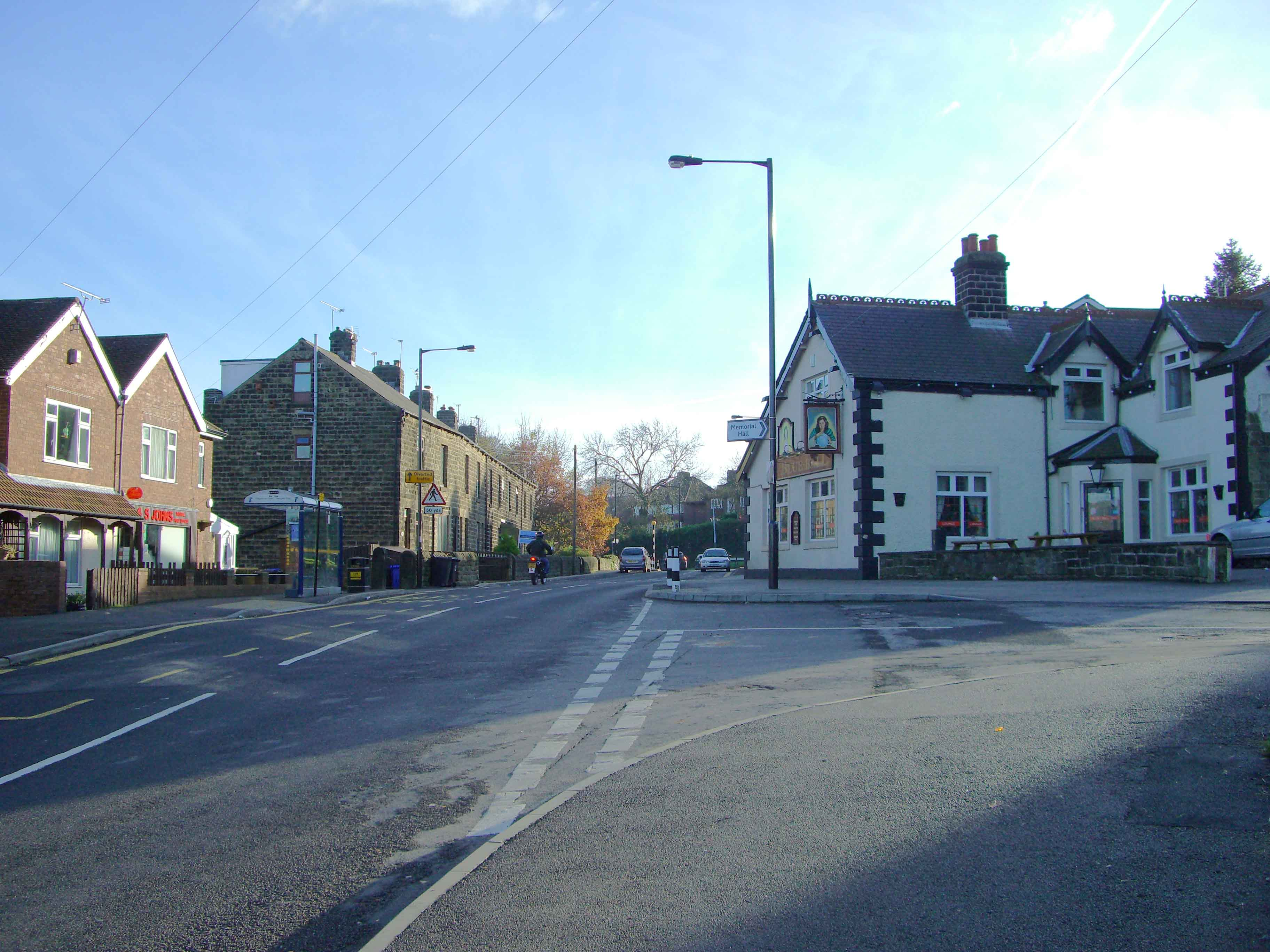 The centre of the village of Worrall near Sheffield.